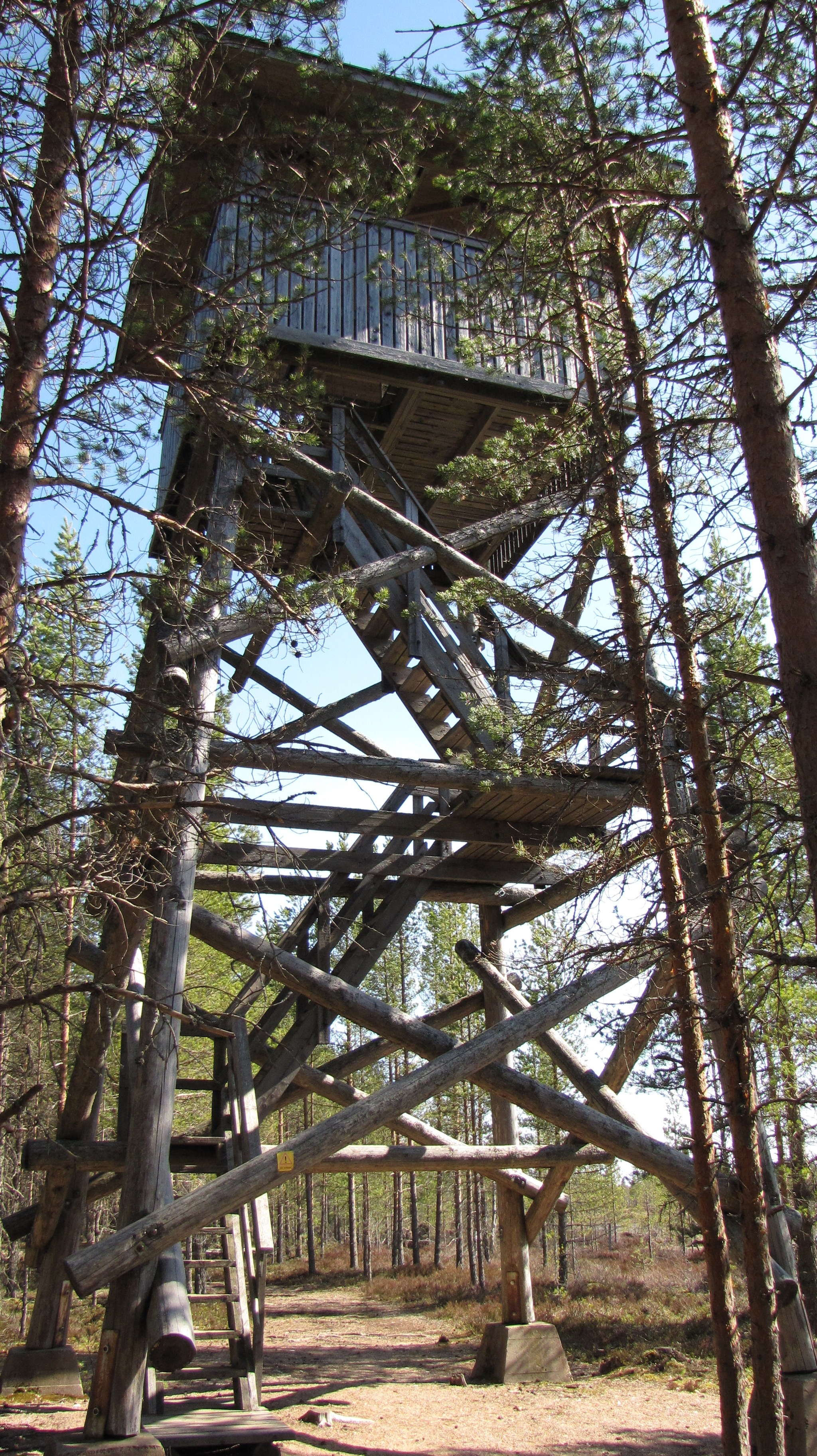 An observation tower in Kauhaneva–Pohjankangas National Park, Finland.